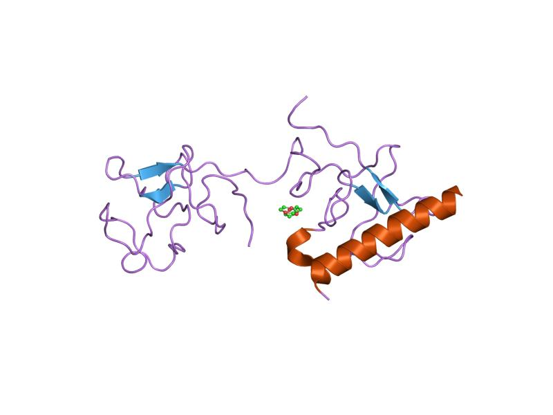 Cartoon representation of the molecular structure of protein registered with 2doh code.